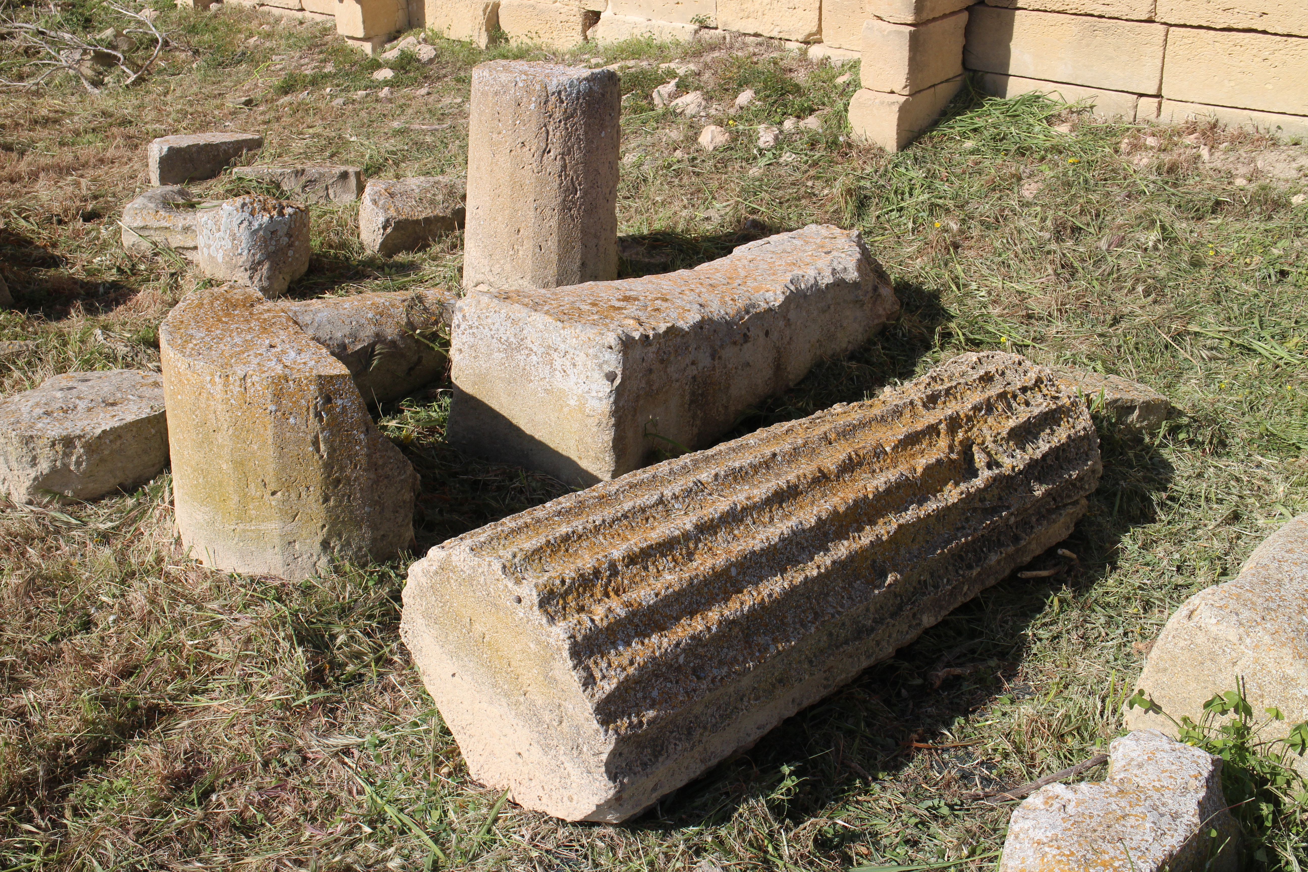 Tas-Silġ Temples, Triq Xrobb l-Għaġin in Marsaxlokk, Malta